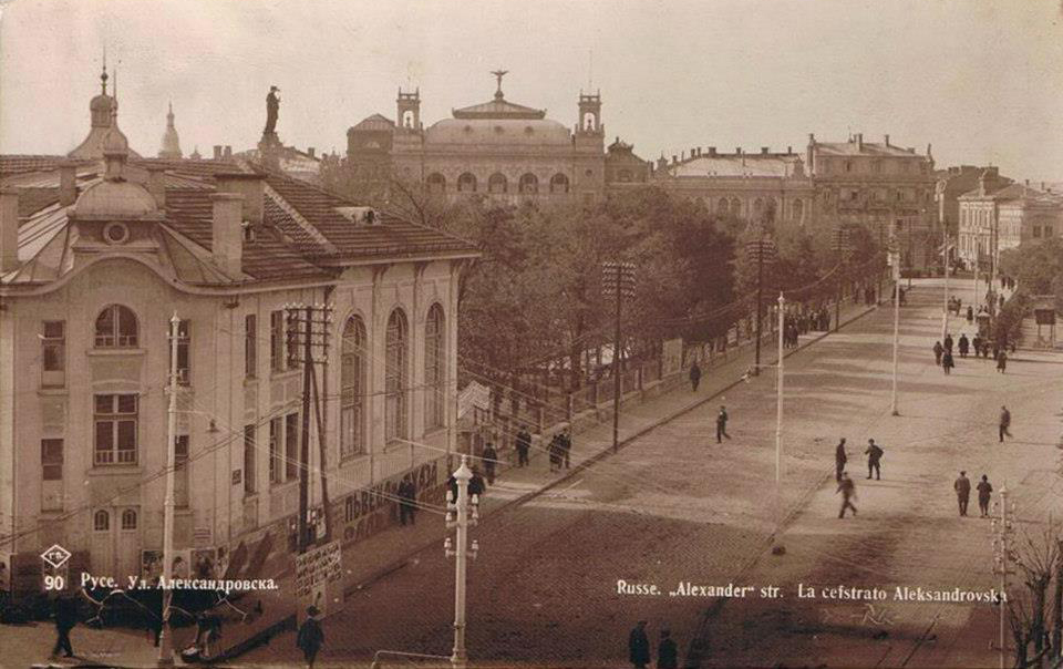 The Municipal casino, Ruse - the 20s years of the 20th century